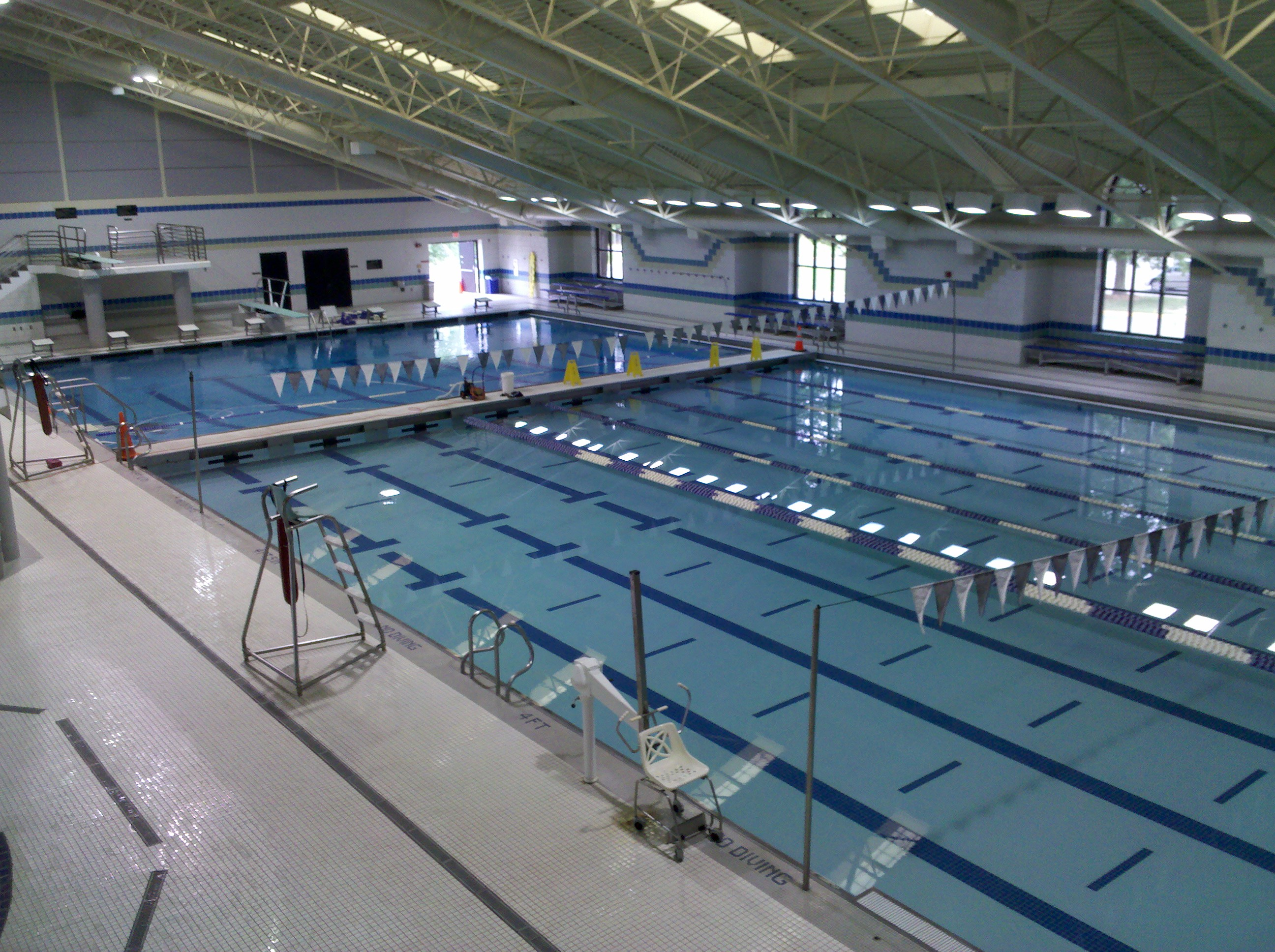 Main pool at Olney Indoor Swim Center in Olney, Maryland, looking towards the diving well.